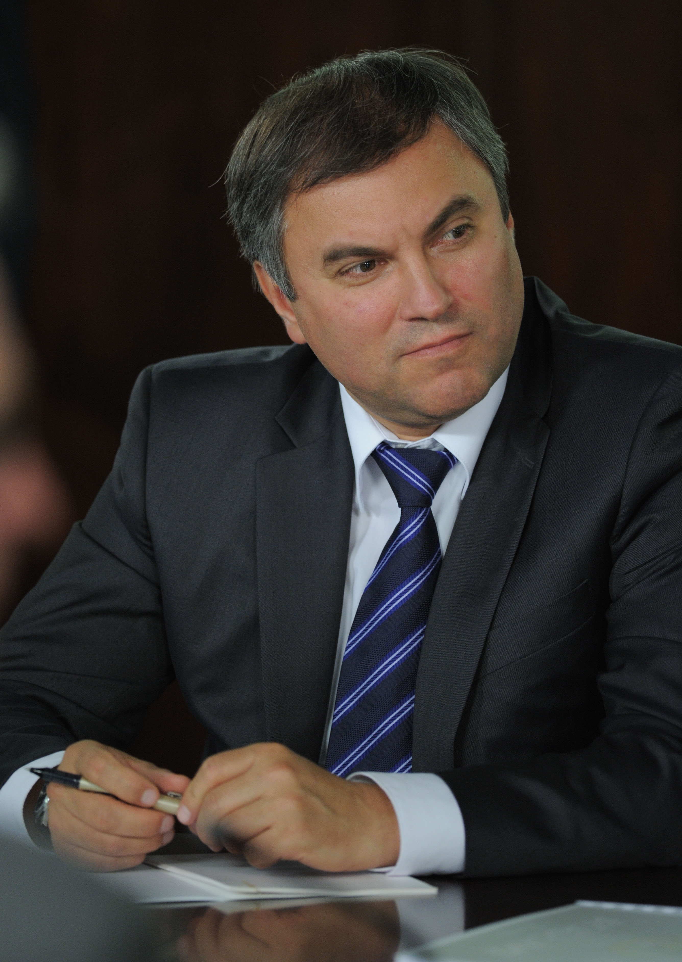 Deputy Prime Minister and Chief of the Government Staff Vyacheslav Volodin